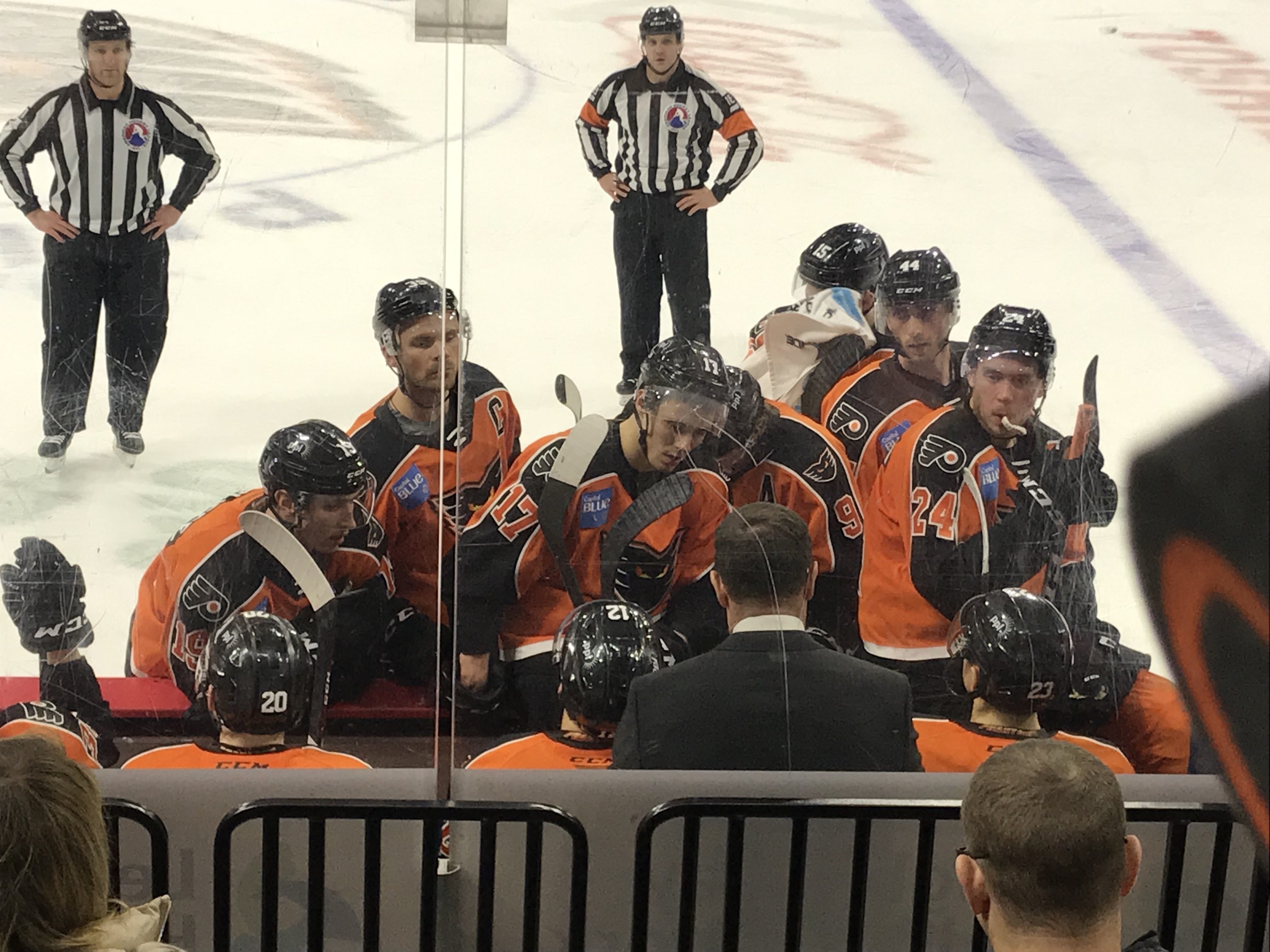 The Lehigh Valley Phantoms at the PPL Center in Allentown, Pennsylvania, on January 15, 2020.